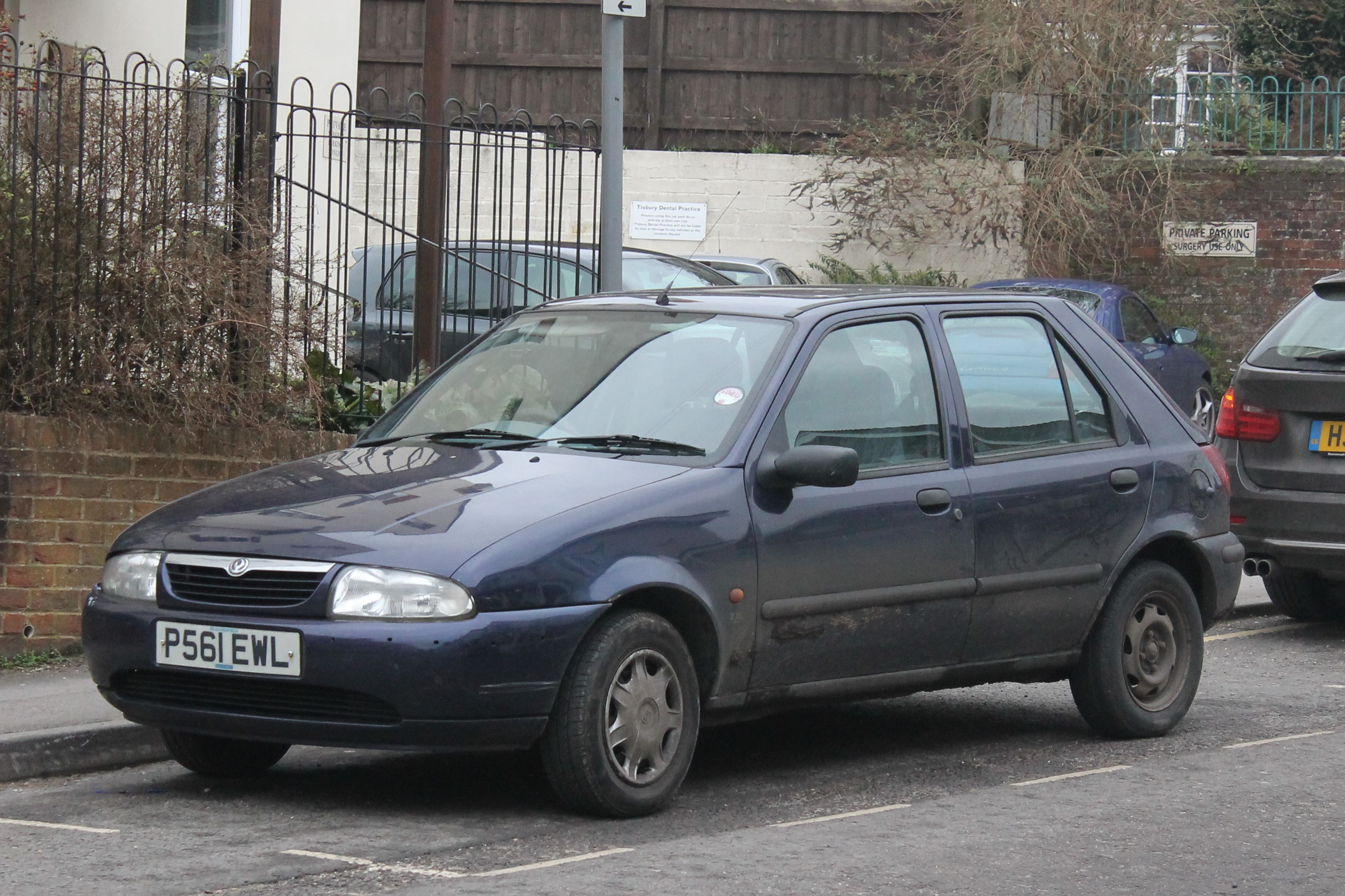 Think this little old one's now been scrapped. It's very strange to me to see one of these (A Fiesta) with a Mazda badge! Much less common than the Ford. These can't have been that popular as automatics though?